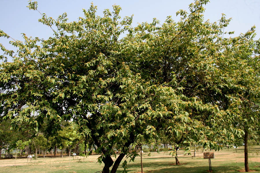 West india elm, Pigeon wood or Bay/ Bastard cedar Guazuma ulmifolia in Sanjeevaiah Park, Hyderabad, India.